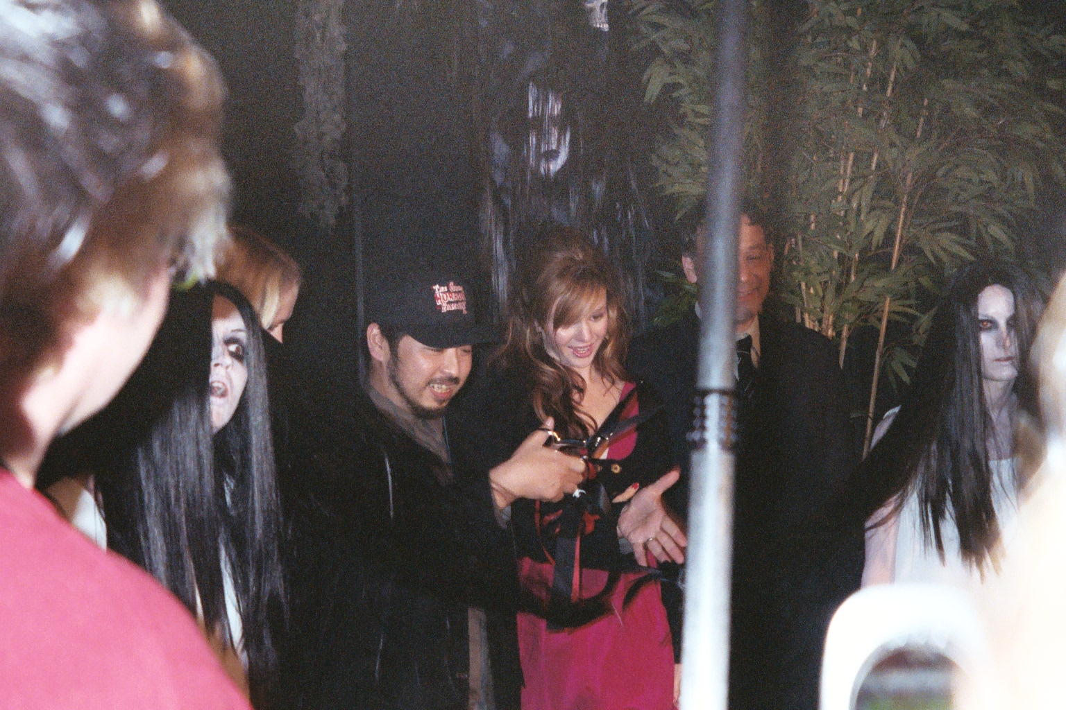 Actress Amber Tamblyn and director Takashi Shimizu cutting ribbon at The Grudge 2 premiere.